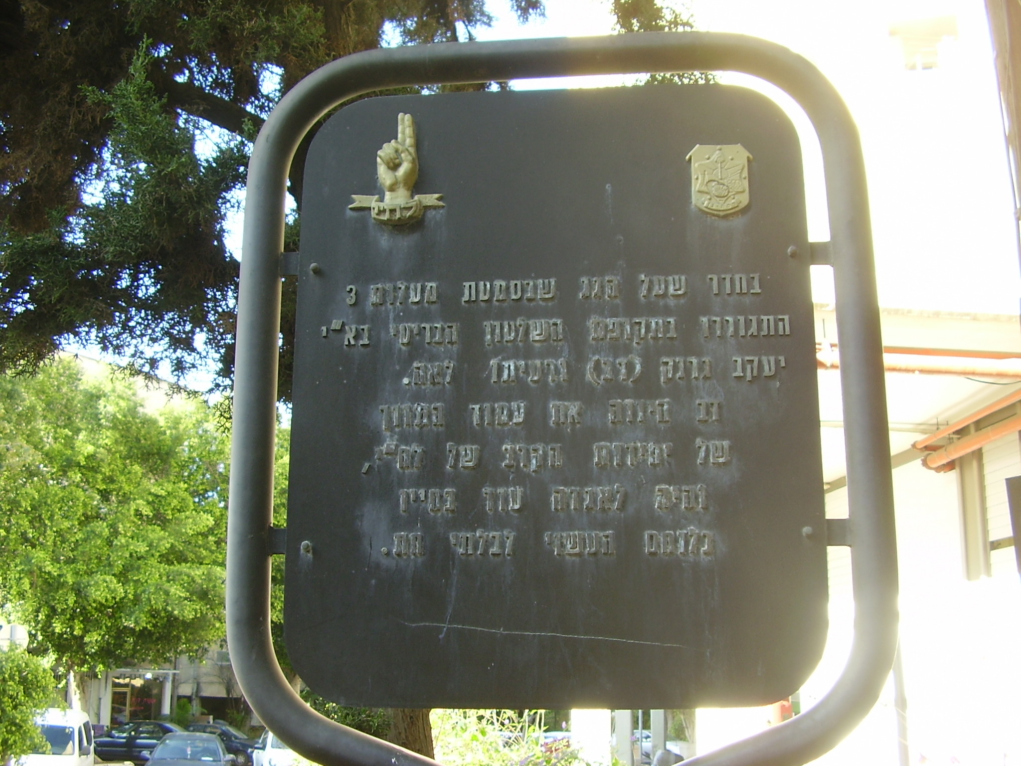 lehi memorial in ramat gan